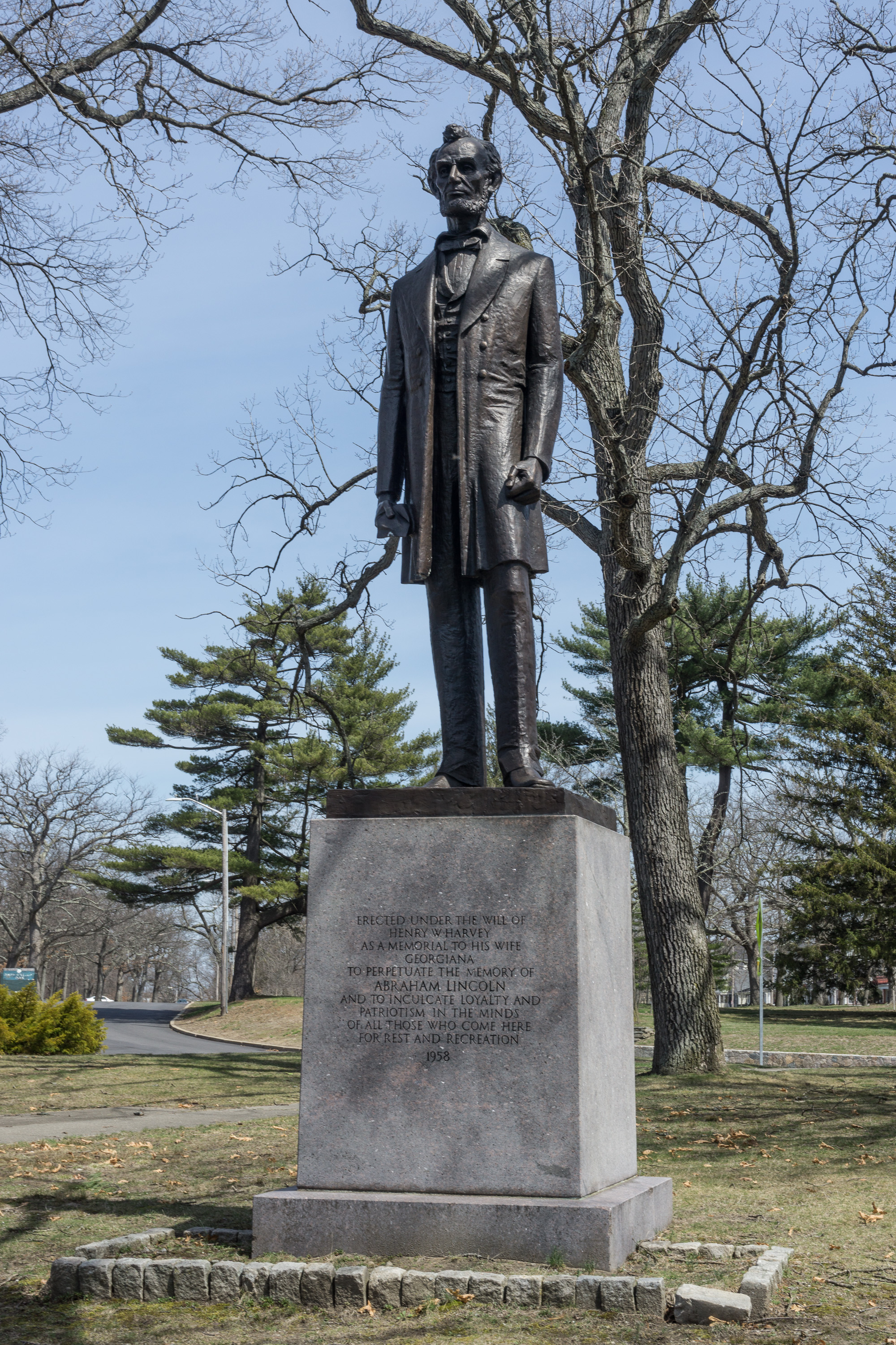 Abraham Lincoln statue, Roger Williams Park, Providence, Rhode Island 1958